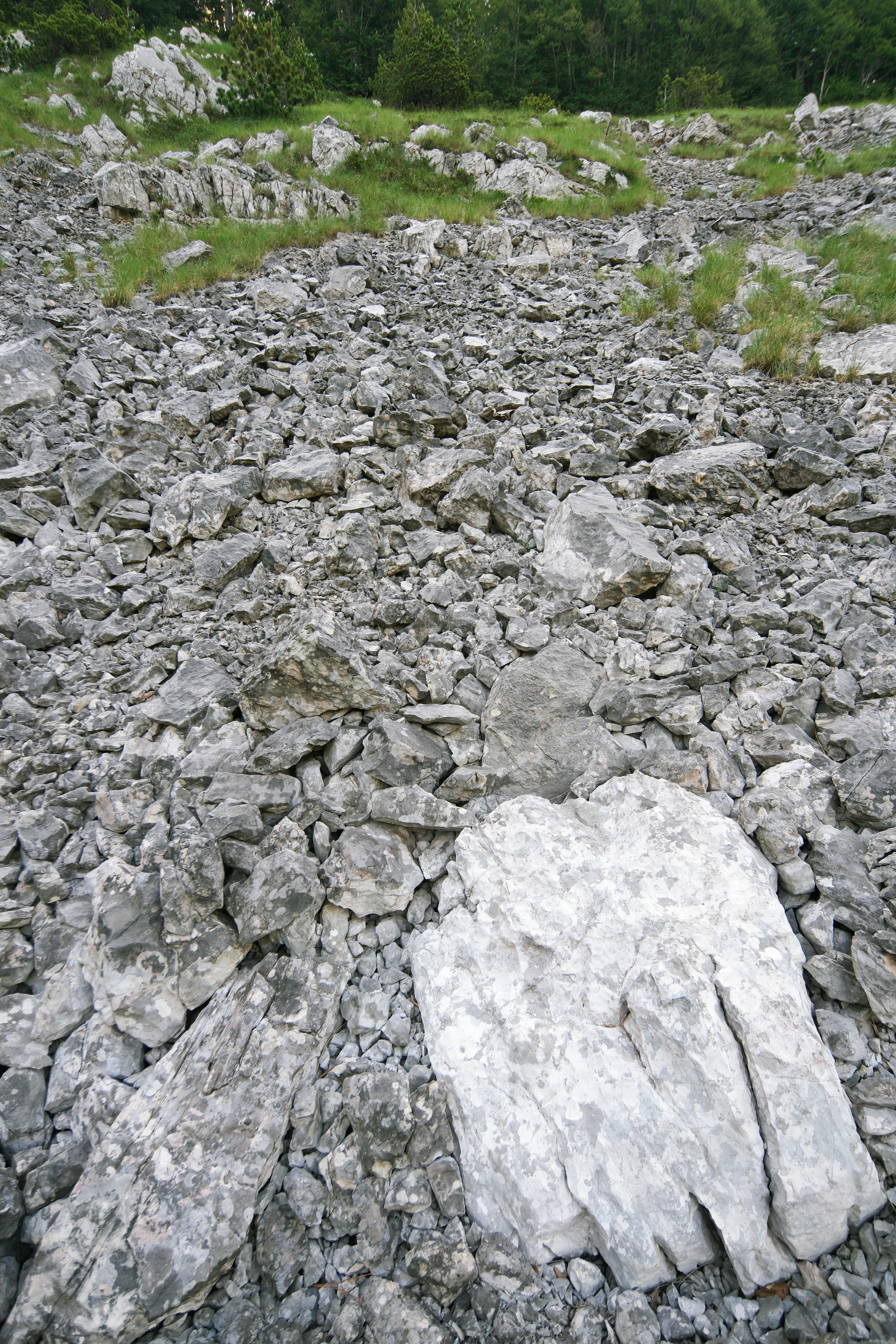 Periglacial talus Mt Orjen Jastrebica ridge